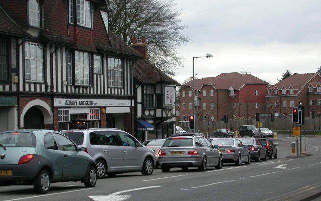 Hindhead Traffic Lights